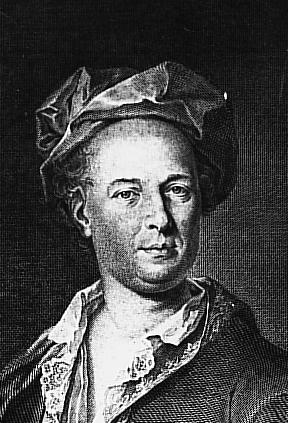 Johann Thomas von Trattner